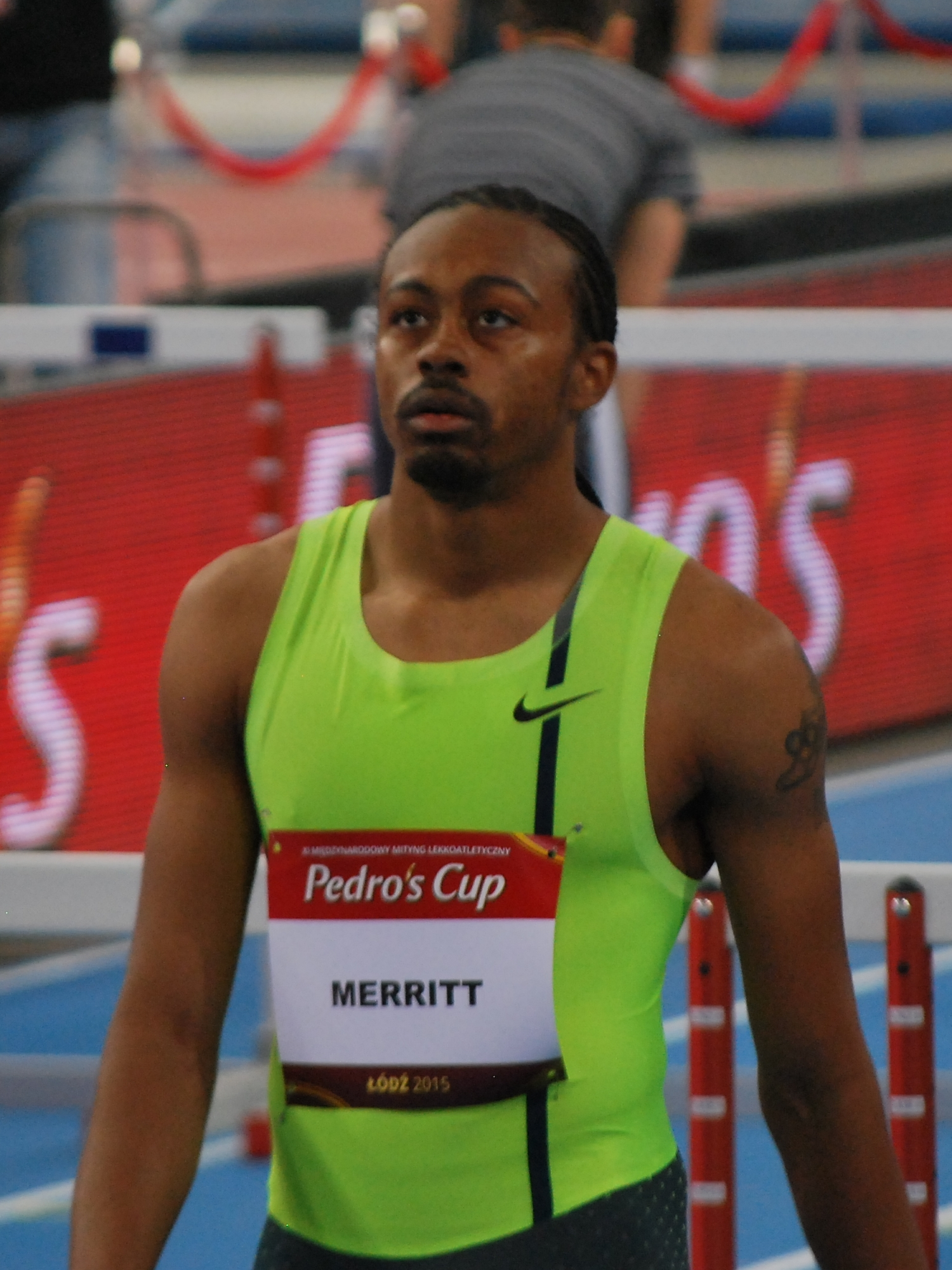 Pedros Cup 2015 Łódź, Aries Merritt, hurdler form the USA